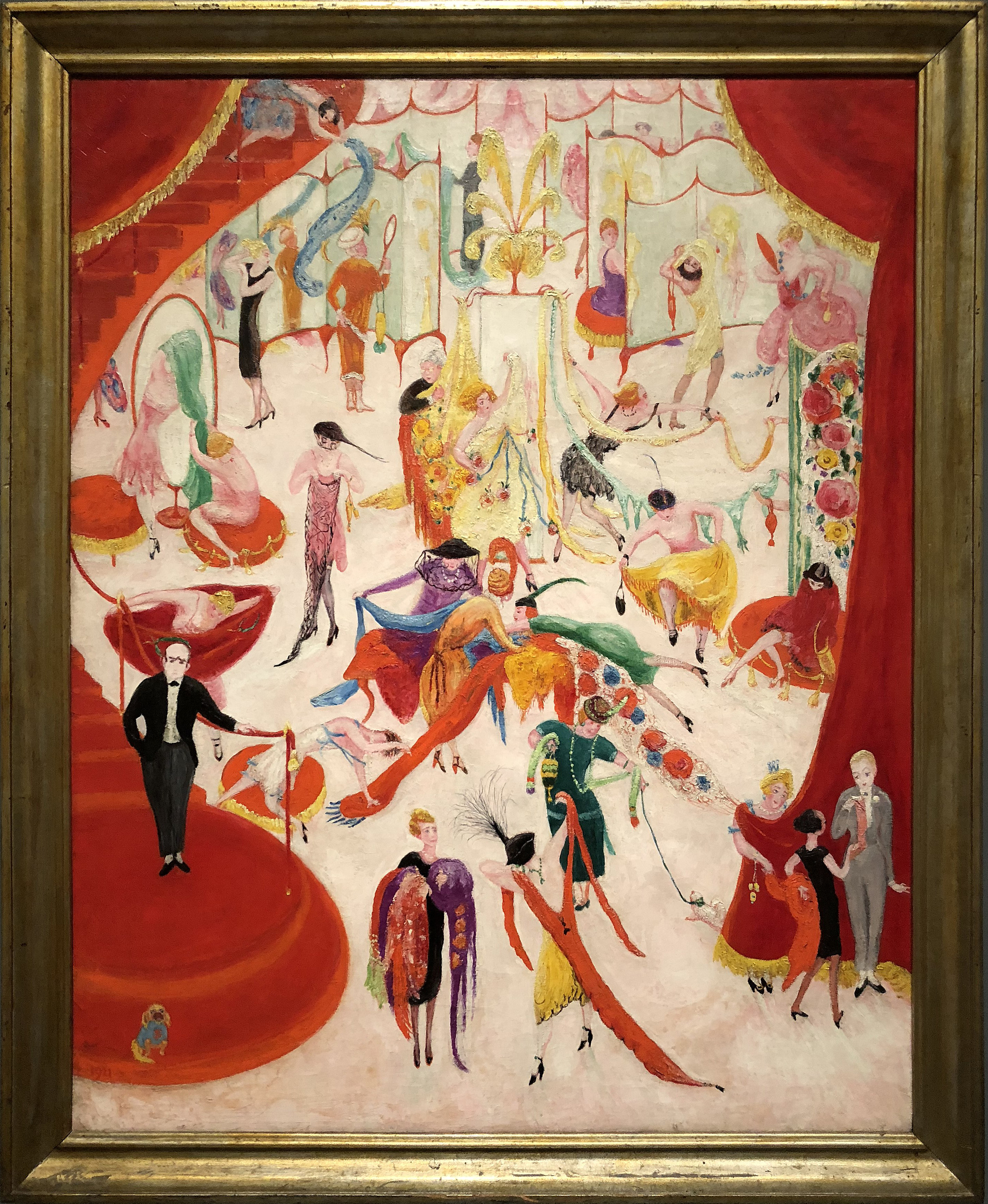 painting by Florine Stettheimer